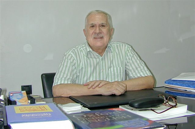 Kamal Salibi, Emeritus Professor at the American University of Beirut